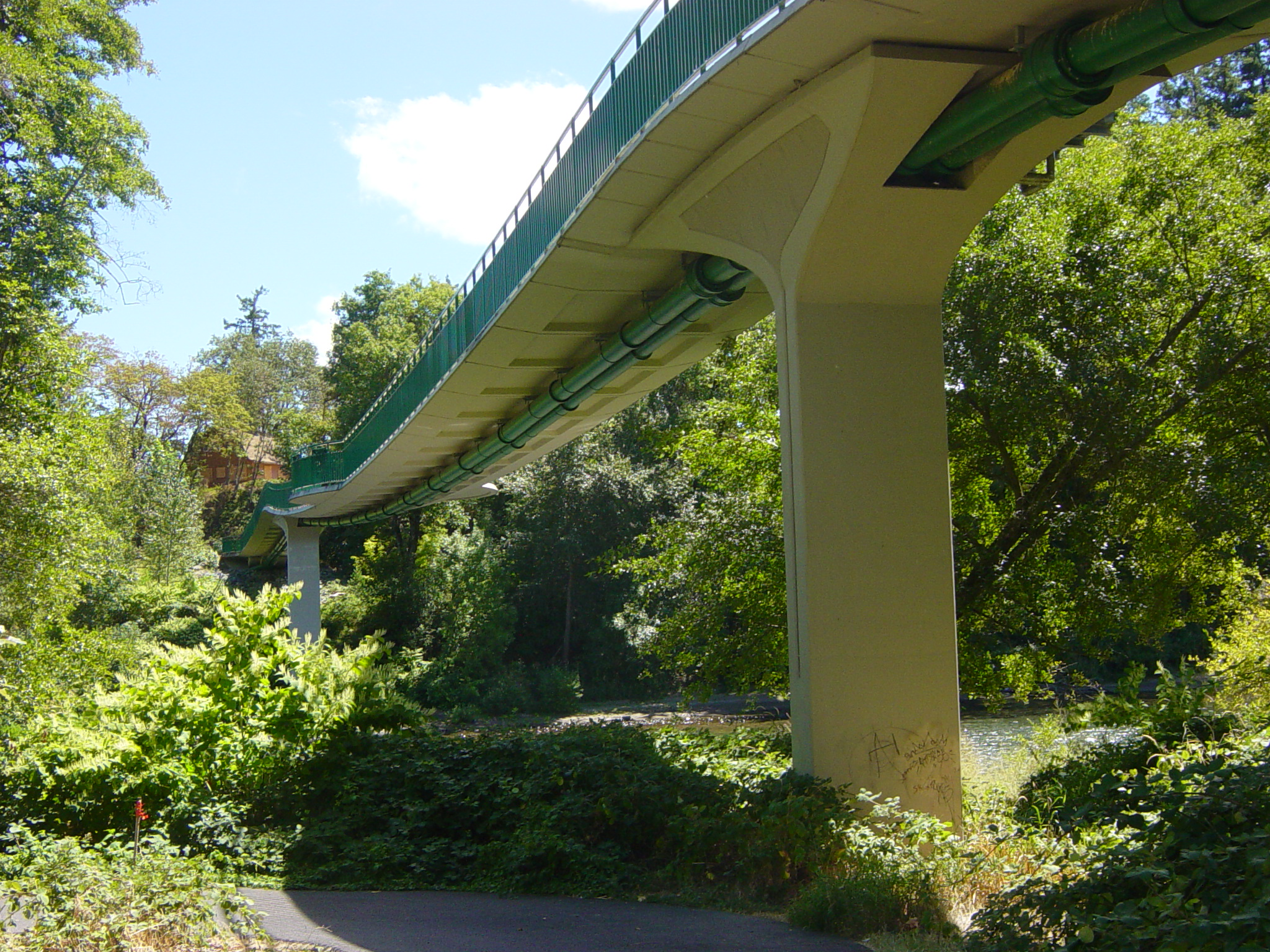 Stressed Ribbon pedestrian bridge over the Rogue River, Grants Pass, Oregon, USA